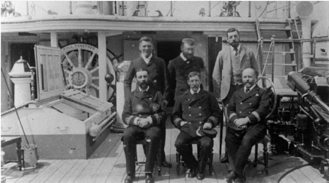 The six officers of the Royal Navy sloop HMS Caroline sit and stand on the quarterdeck of the the ship in a formal photograph